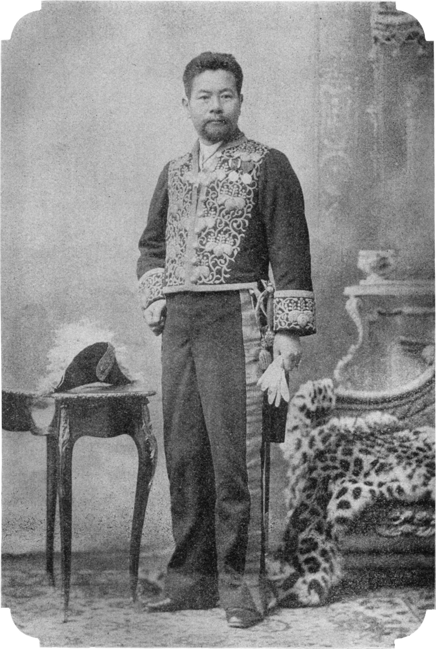 Mr. A. Hamao, the new minister of education department.